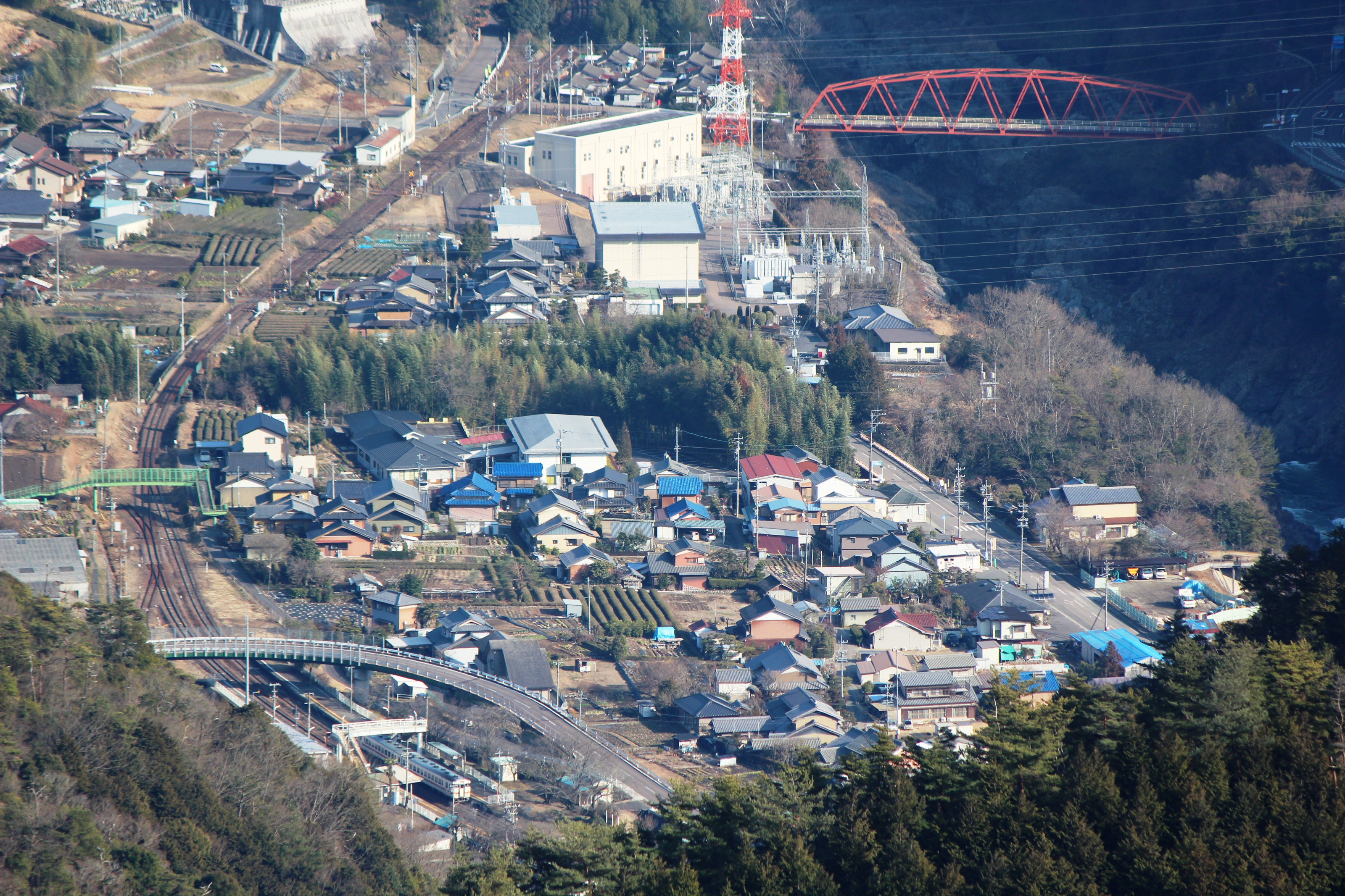 View of Kamiasō Station on the Takayama Main Line, Hida River and the National Route 41 from Mount Noko